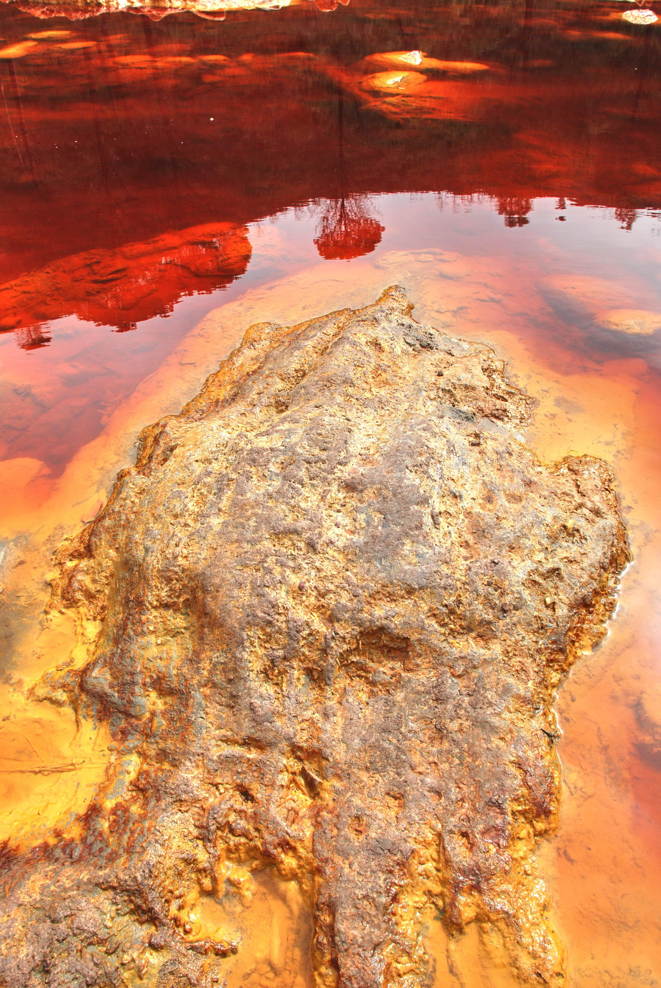 The acidic waters of Rio Tinto, but seem incapable of supporting life, provide shelter for some microorganisms that consume oxygen. These bacteria are the triggers of the color of these waters.